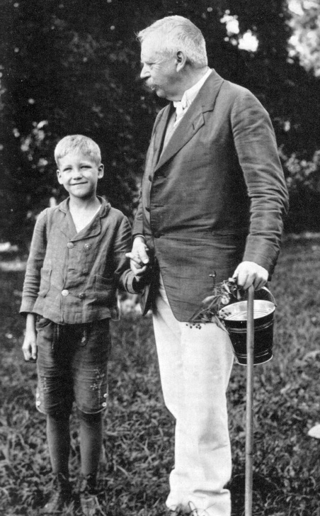 Jakob with his son Thure in Putzar, summer 1915